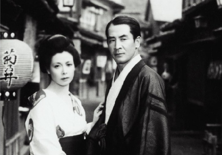 So Yamamura and Chikage Awashima in 1953 Japanese movie An Inlet of Muddy Water